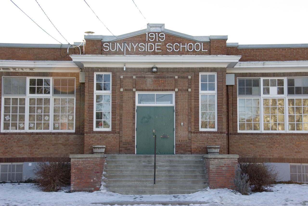 This picture was taken by Mark Bennett.